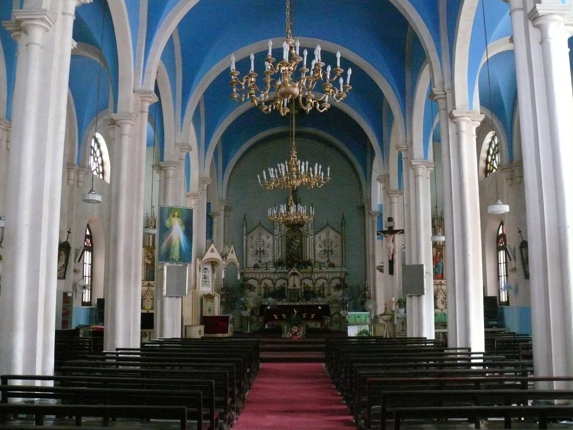 Cathedral of the Immaculate Conception in Nanjing (Jiangsu, China).